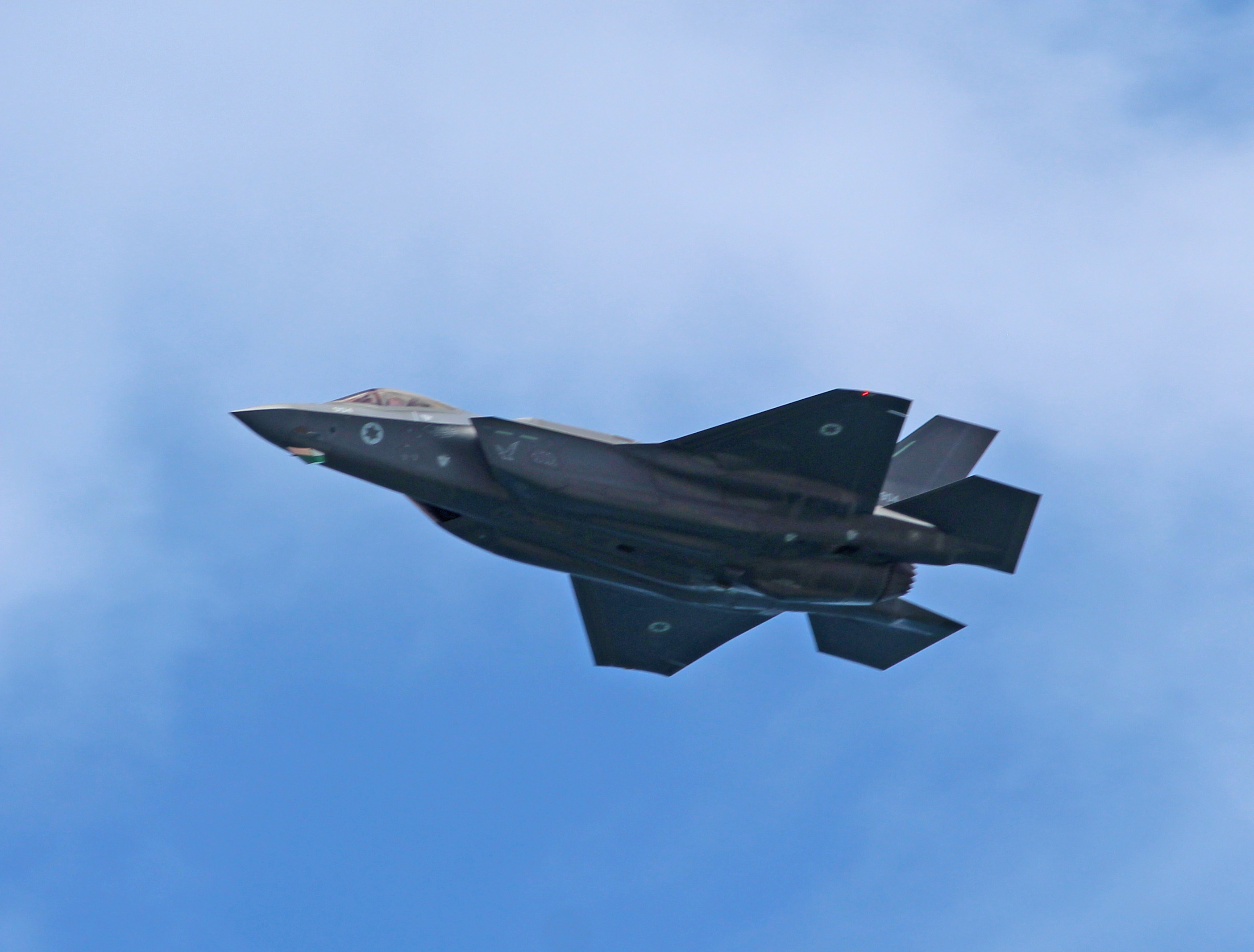 Air Force Fly By, Beaches of Tel Aviv-Yaffo, Israel 71st Independence day